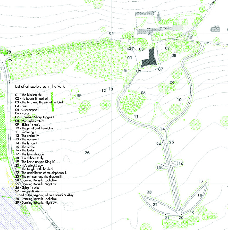 Plan of Sculpture Park Engelbrecht with legend © J J de A Vares